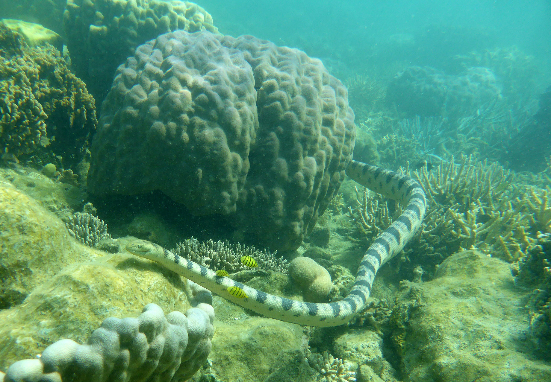 A greater sea snake Hydrophis major in the Baie des citrons, New Caledonia